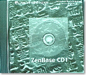 ZenBase CD1 cover; by Urs App and Mark Thomas